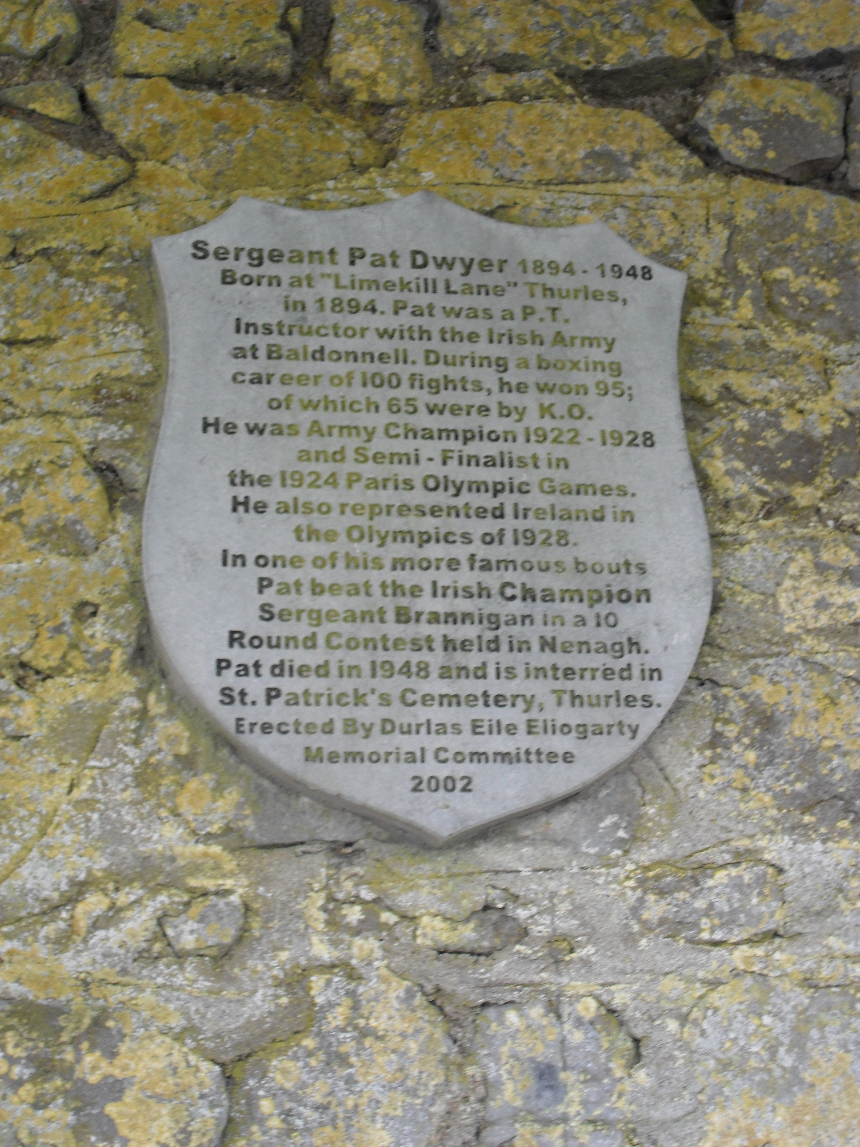 Paddy Dwyer